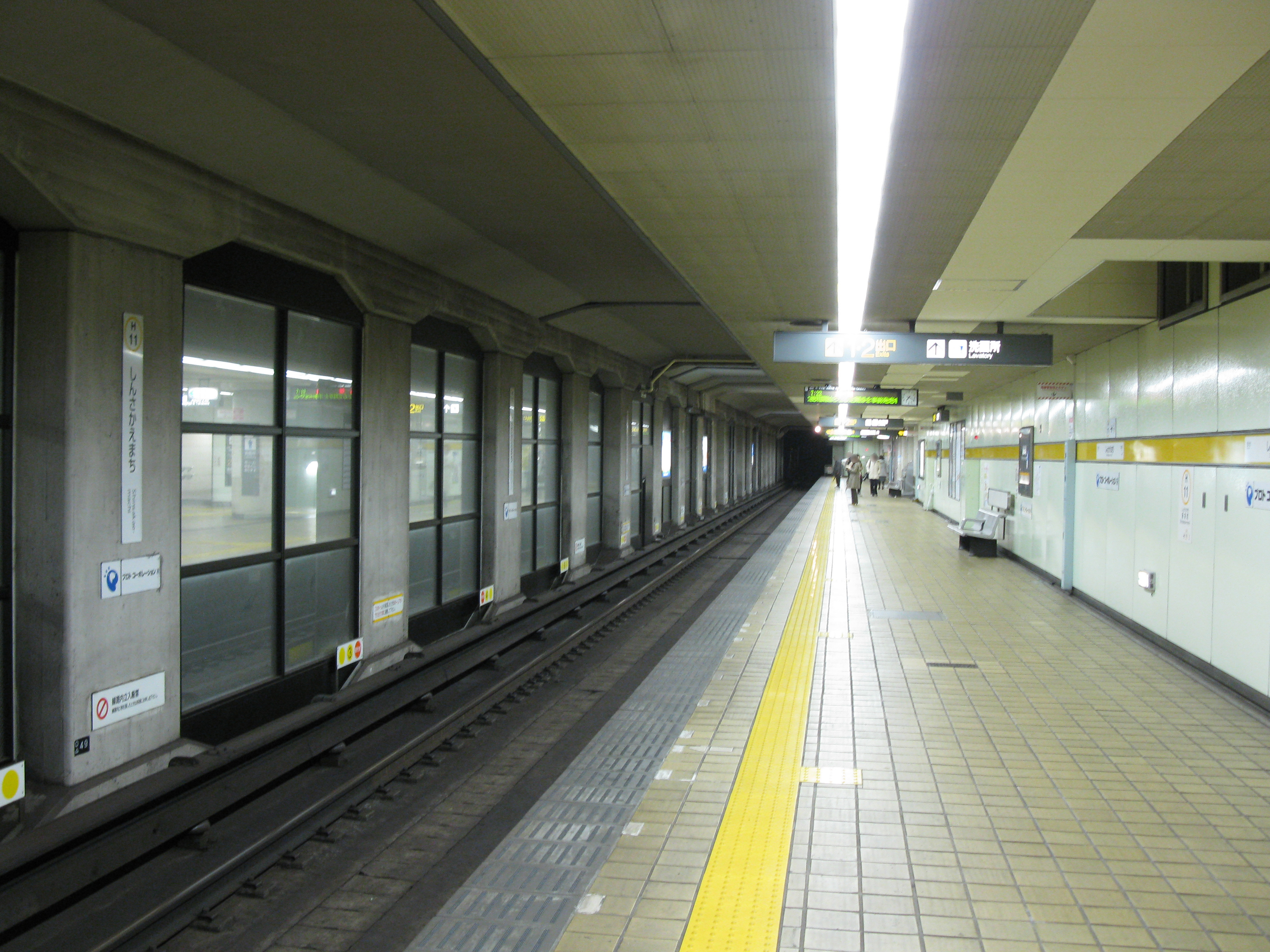 Shinsakae-machi Station platform (Nagoya Municipal Subway Higashiyama Line)